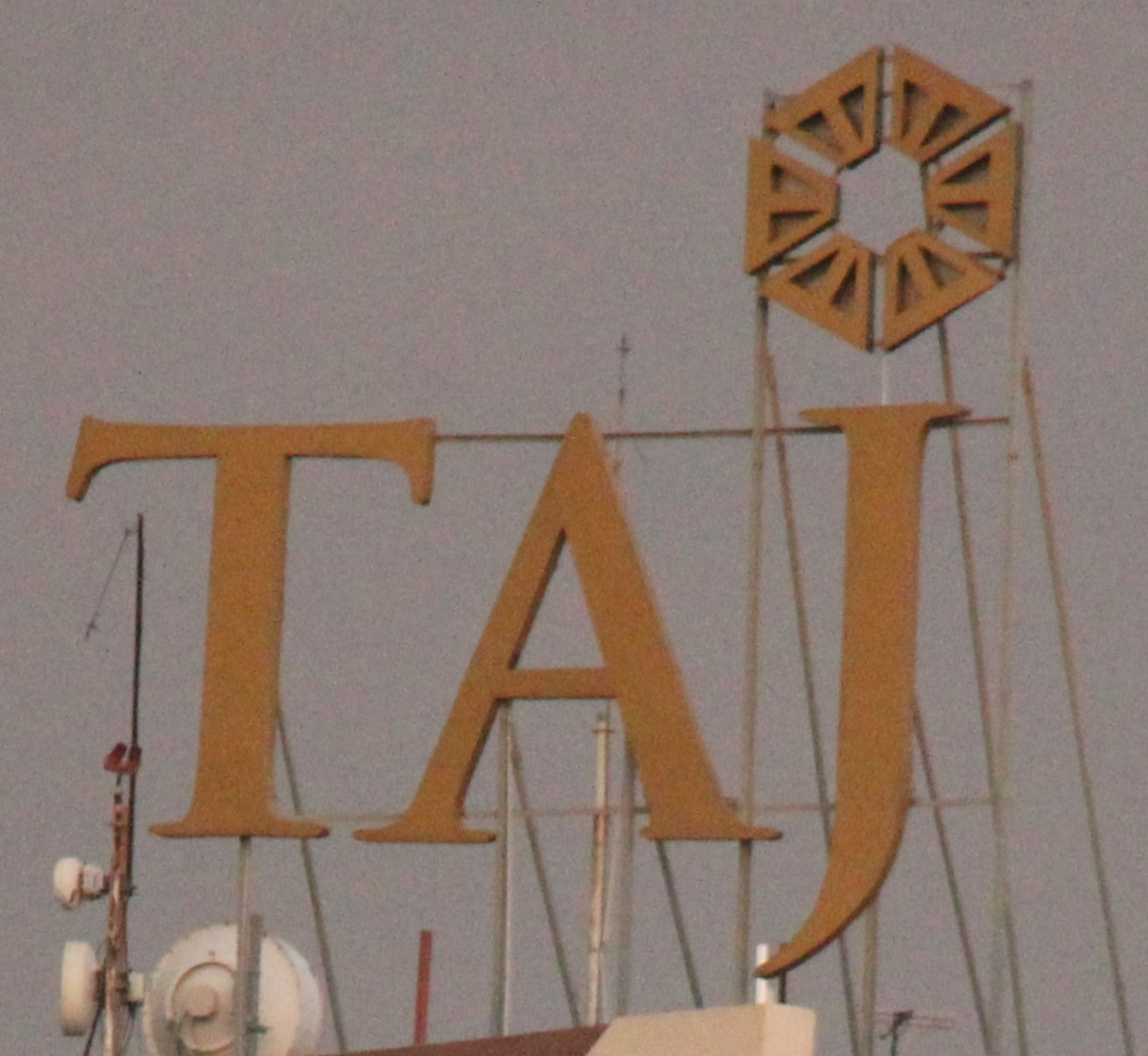 Taj Hotels Logo displayed on Taj Samudra in Colombo.